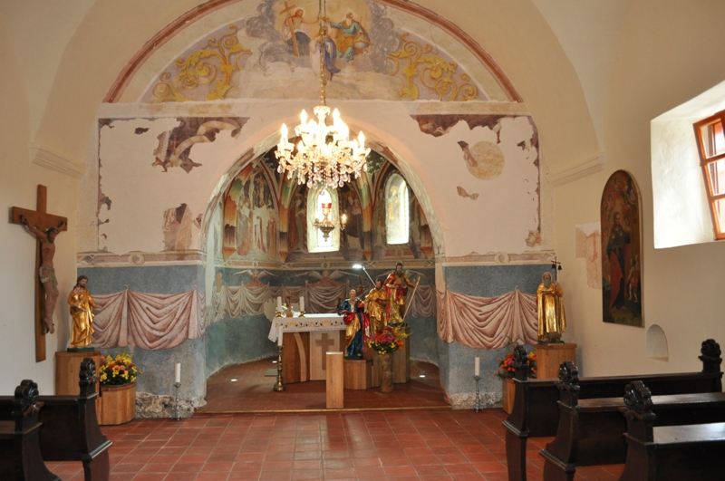 St. James's Church in Naklo, Črnomelj. The Gothic presbytery bears frescos of Christ's suffering.